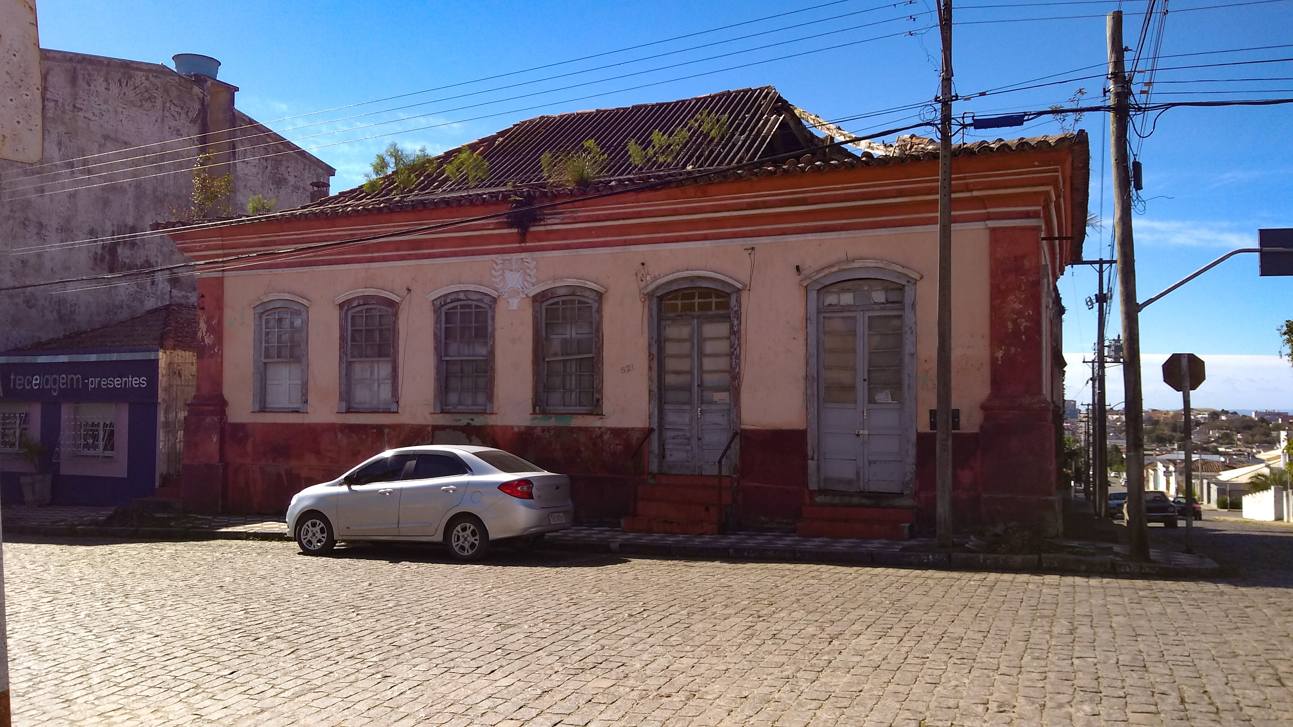 House where the ministries of the former Riograndense Republic were installed in 1839 (see Ragamuffin War), when Caçapava do Sul (Brazil) was the 2nd capital of this republic.